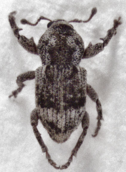 adult Maleuterpes spinipes, length about 2.8 mm